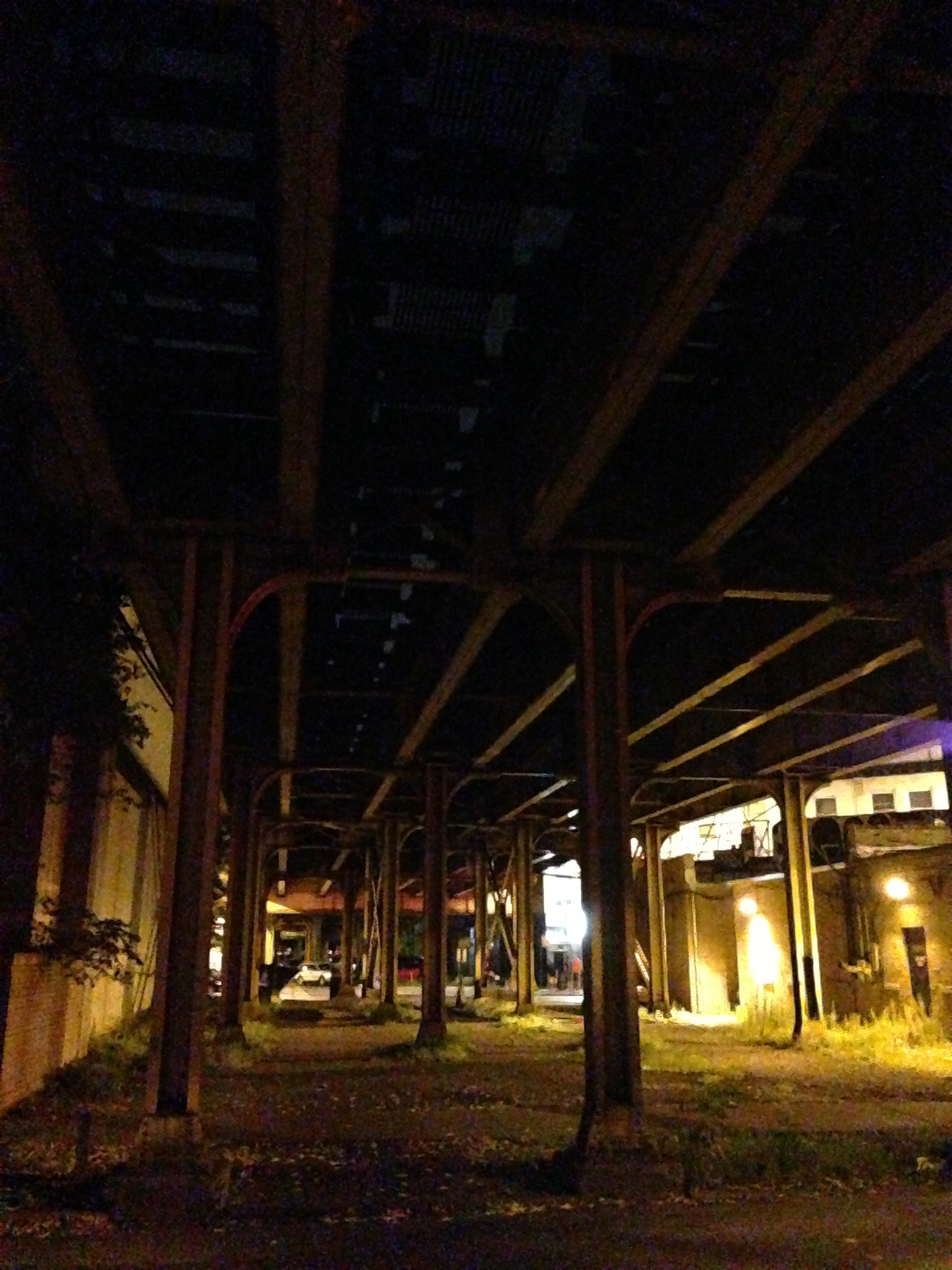 tracks where the wrightwood El used to be